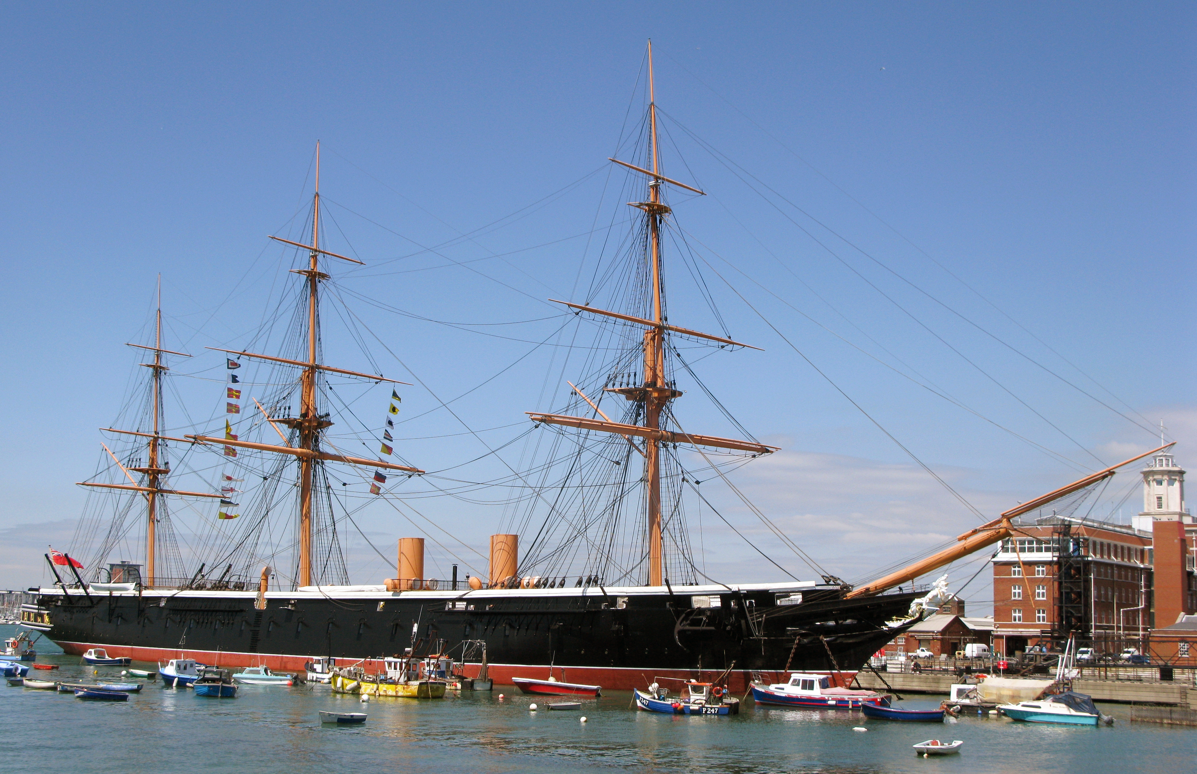 Photo of the ironclad HMS Warrior (1860) with the tide in.